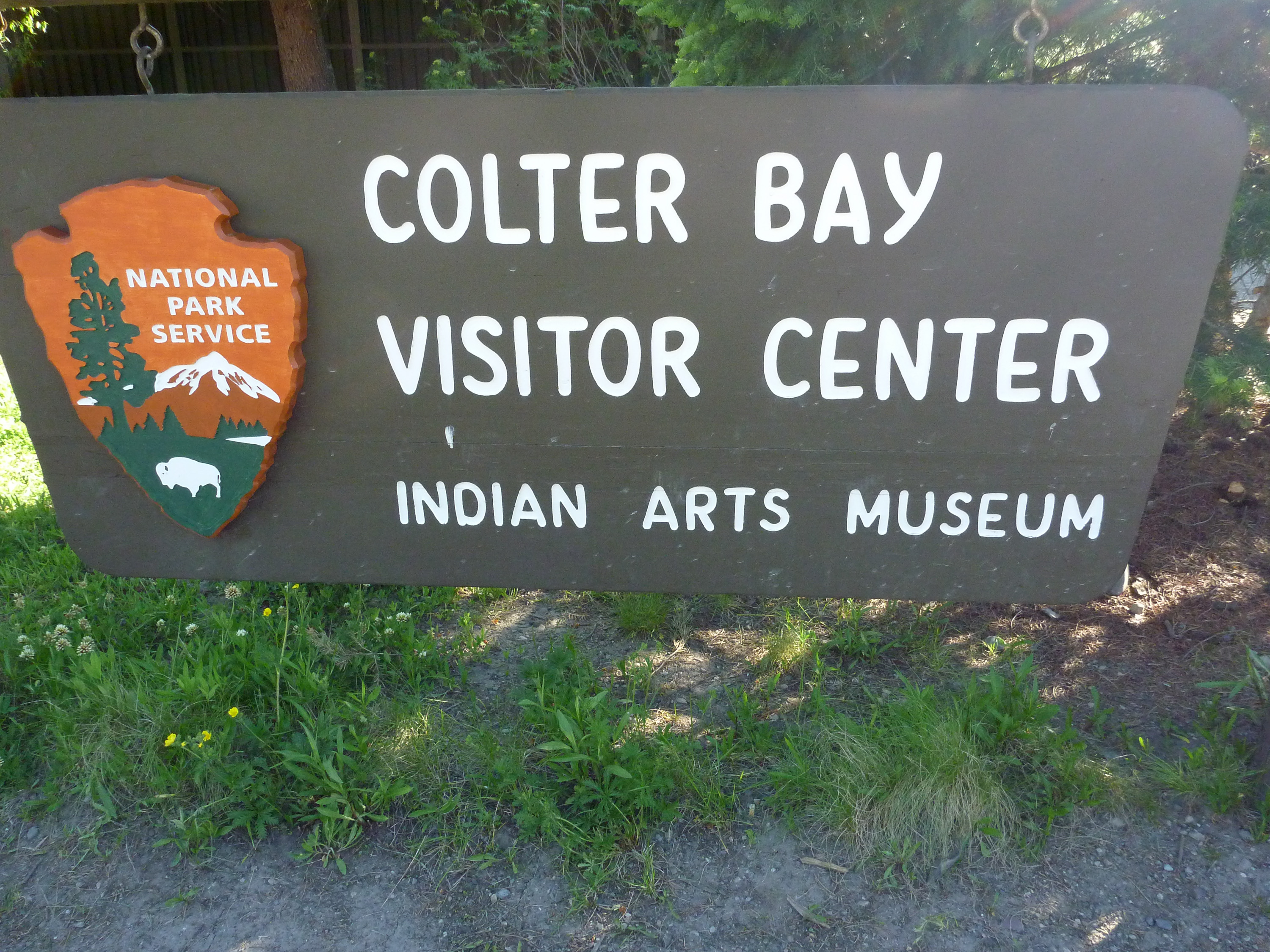 Sign for Colter Bay Visitor Center, at Jackson Lake, Grand Teton National Park, Wyoming.